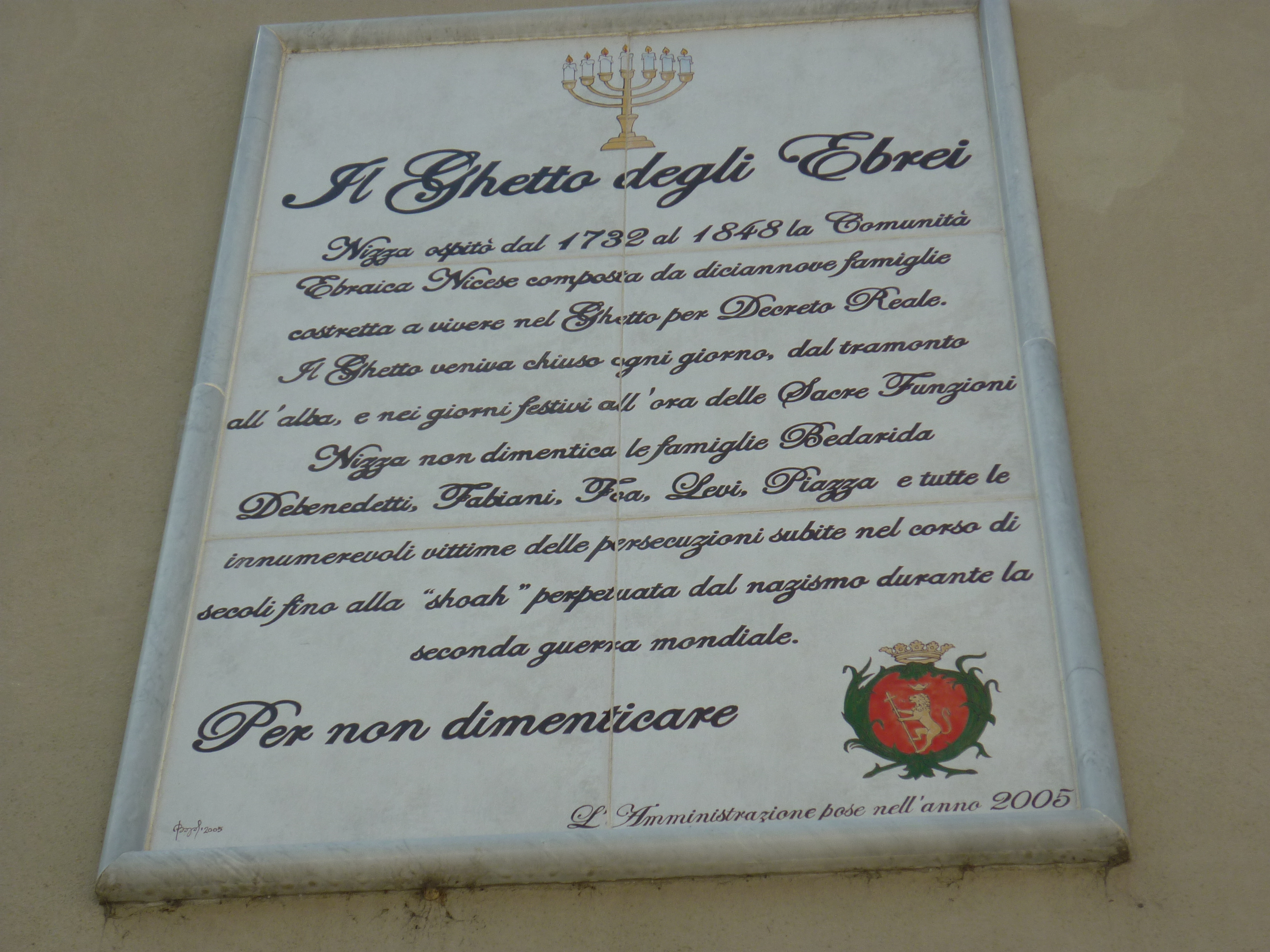 Plague ghetto in Nizza Monferrato,Pietmonde, Italy